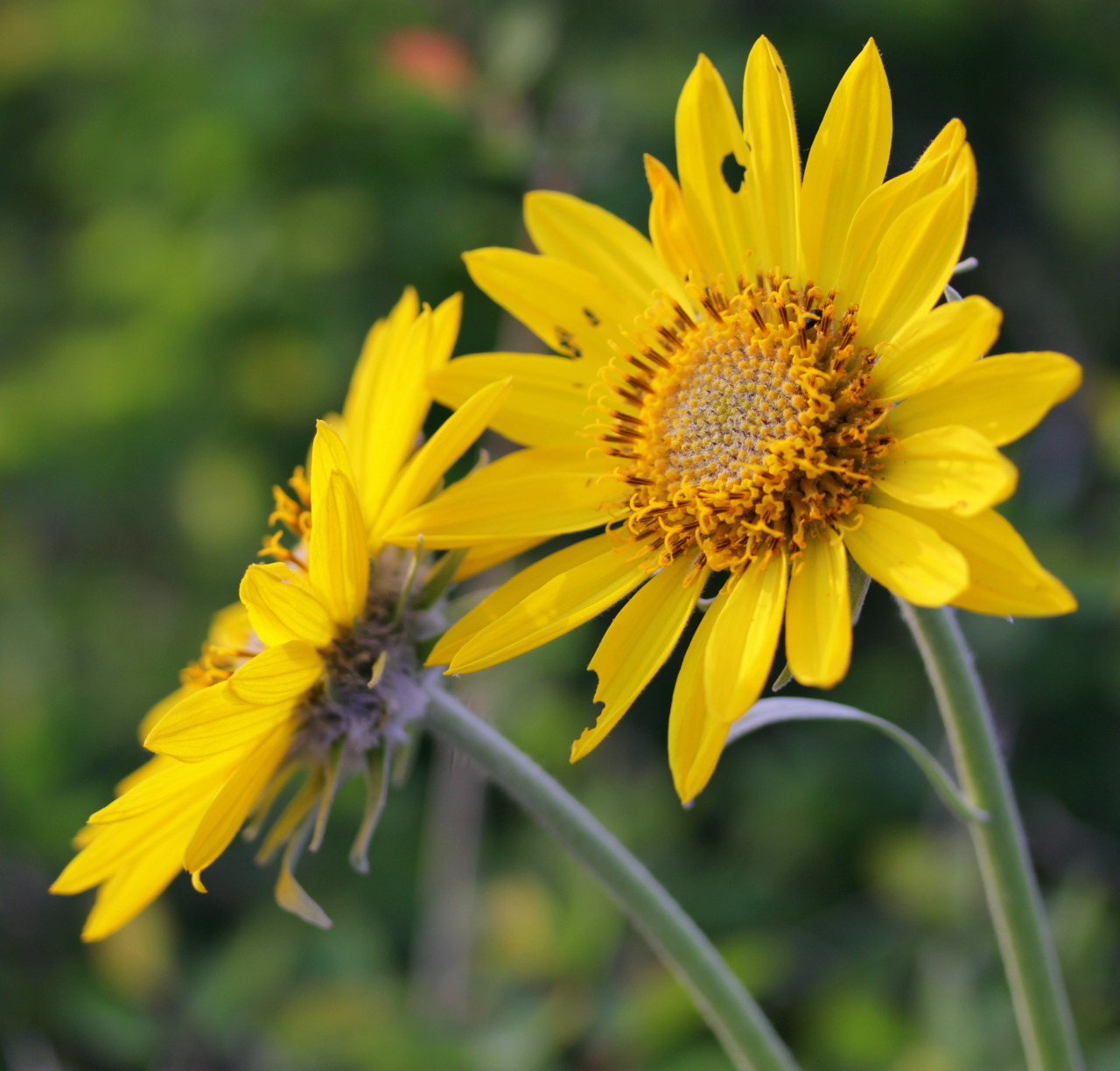 Arrowleaf Balsamroot found on Mount Sentinel, Missoula, Montana, 1 May 2015